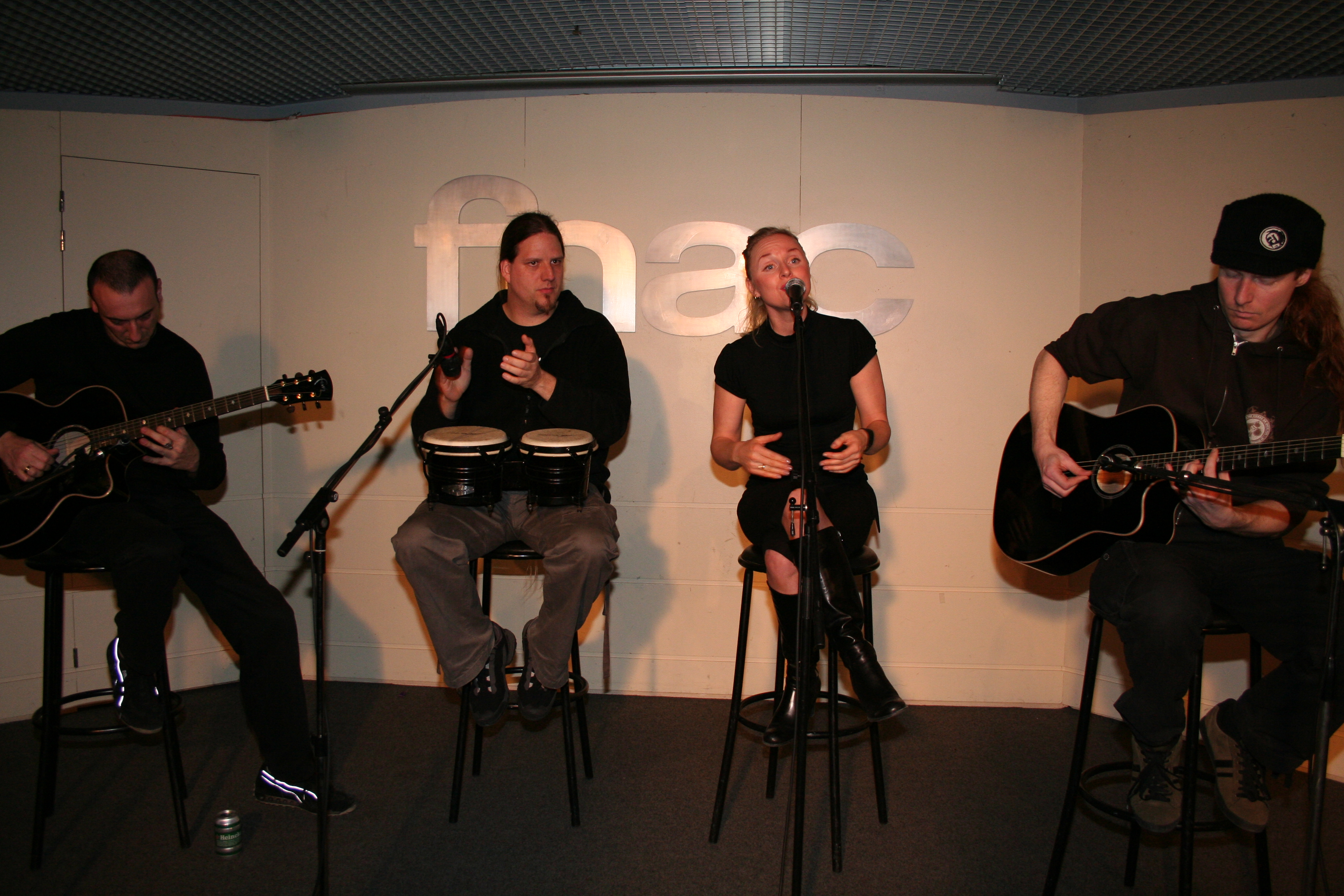 Show-case with Leaves' Eyes at Fnac des Halles (Paris, France).